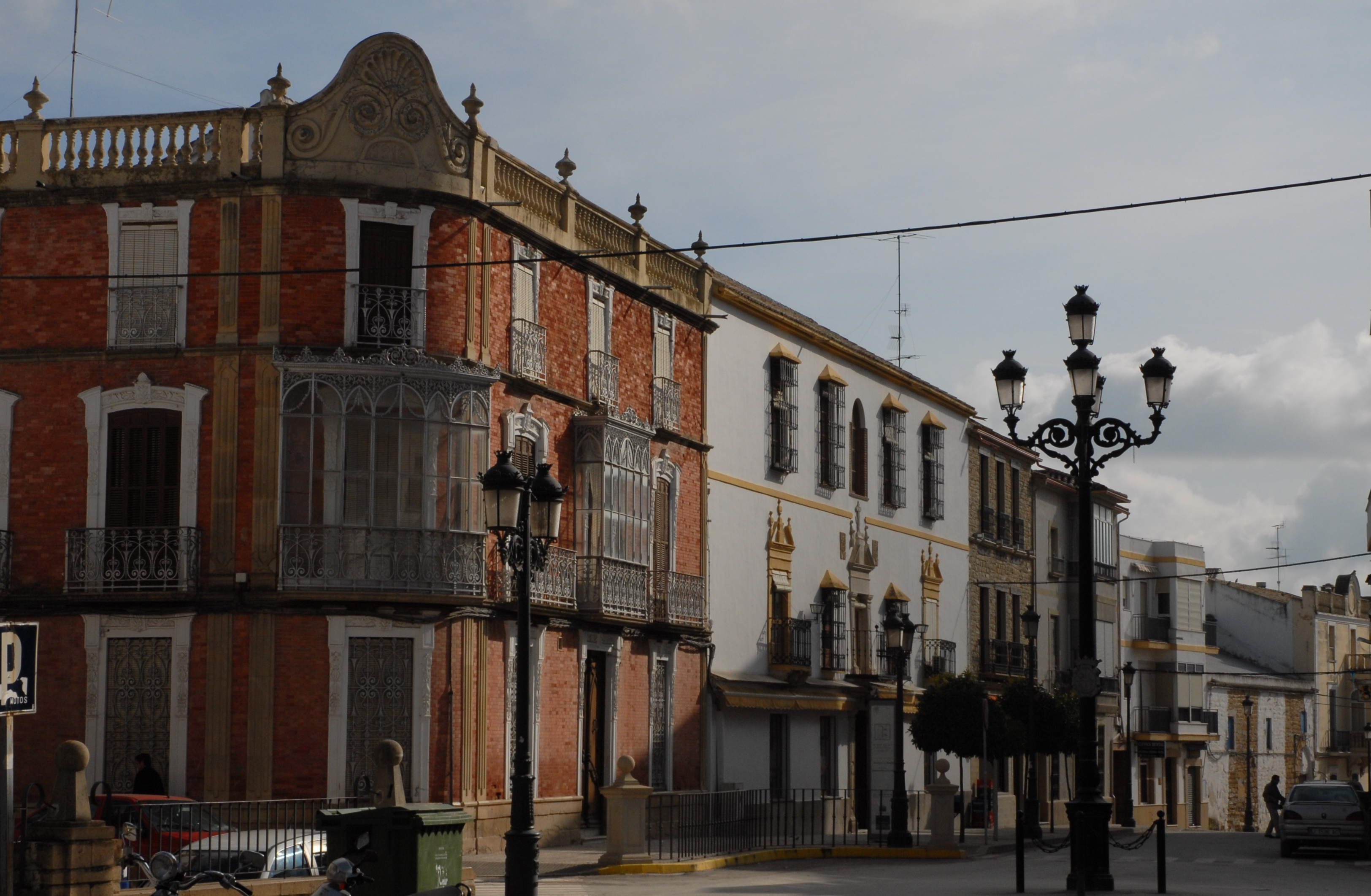 Only preserved part of original buildings from the end of XIX and initial XX Centuries, of La Carrera, main street of Porcuna, Spain